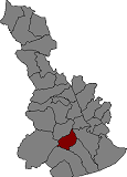 Location of Sant Climent del Llobregat in Baix Llobregat